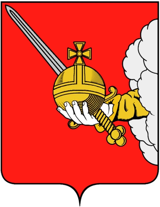 Vologda (Vologda oblast), coat of arms (1780)